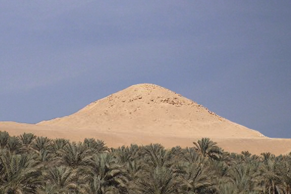 Pyramid of Djedkare, Saqqara, 1990ies